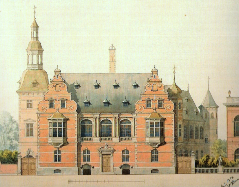 H. C. Andersen slottet, Copenhagen, in its original state as the Danish Museum of Art and Design. Drawing by architect Vilhelm Klein, 1890s.